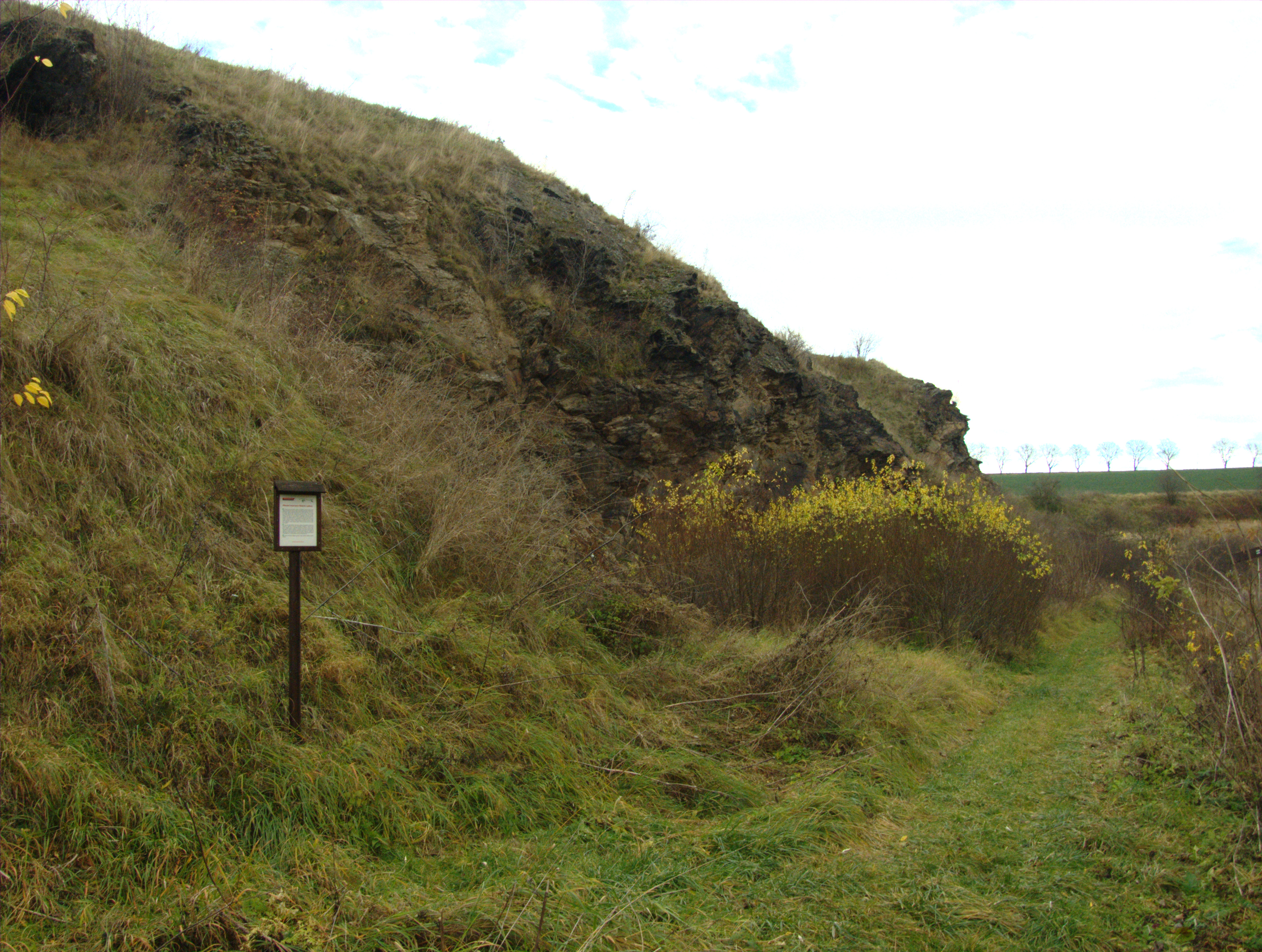 Stráně u Splavu natural monument near the town of Vrbčany, Central Bohemian Region, CZ This photograph was taken within the scope of the third year of the 'Czech Municipalities Photographs' grant.